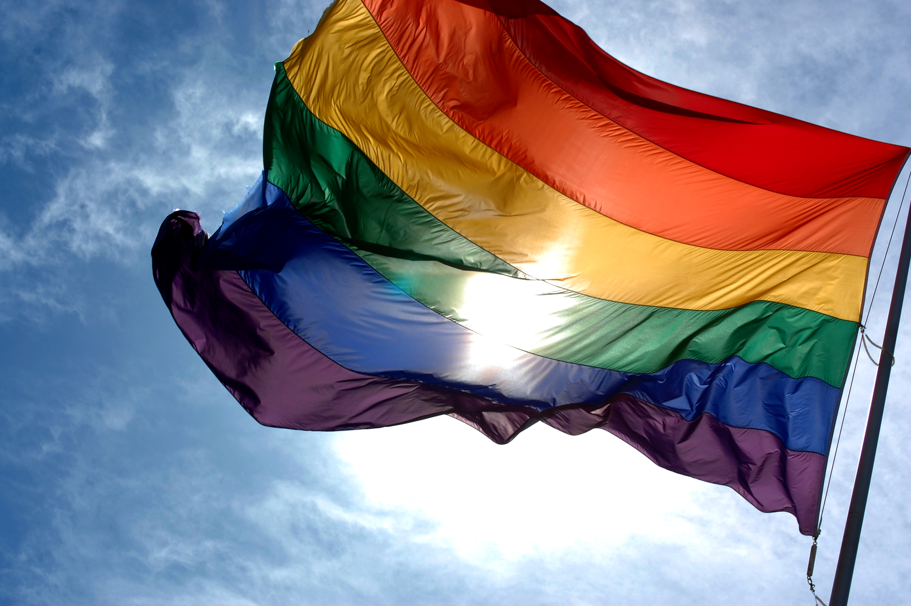 Rainbow flag flapping in the wind with blue skies and the sun.